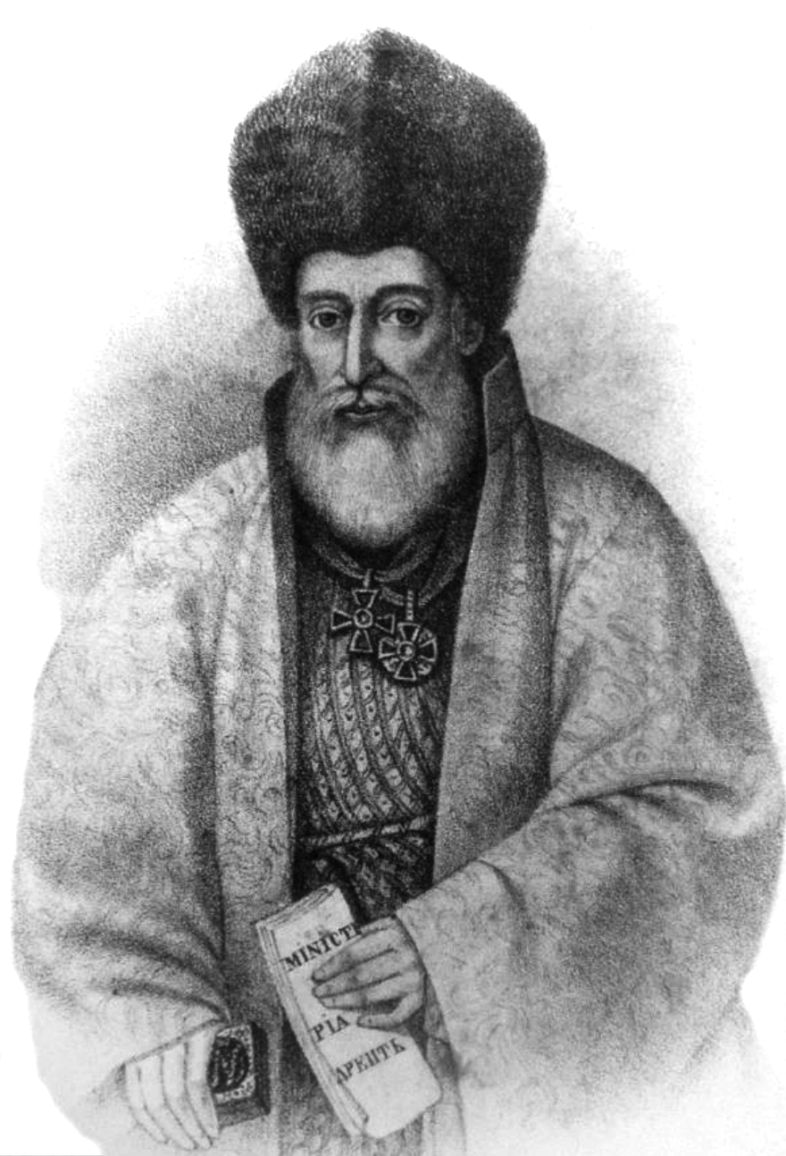 Alecu (Alexandru) Filpescu, known as Vulpea ("The Fox"), who was Wallachia's minister of finance in 1828, failed candidate for the throne in 1842, and Great Ban from 1843. He was also the stepfather and personal rival of Prince Alexandru II Ghica, having married his mother, Maria Ghica-Hangerli.